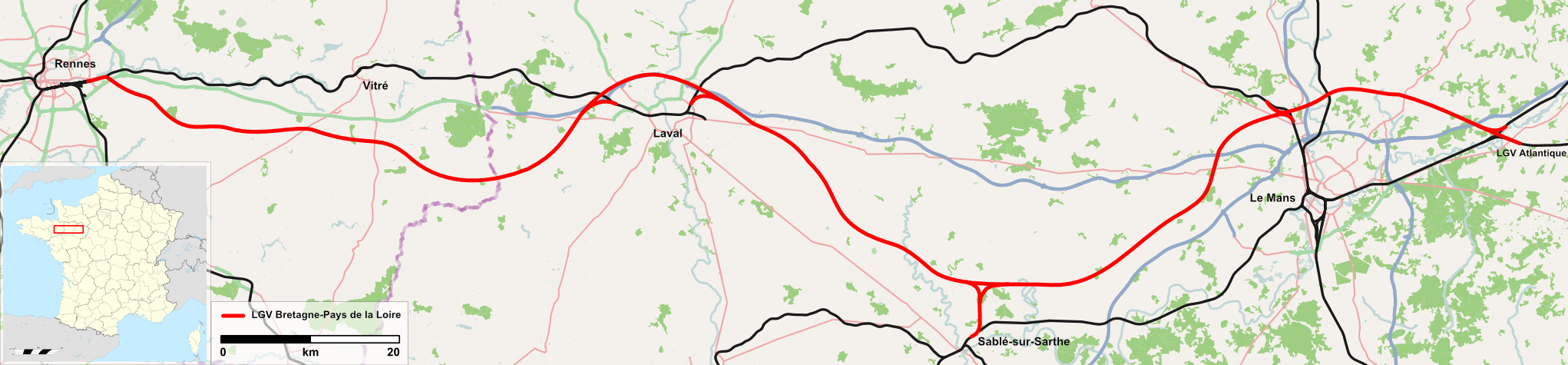 map of the LGV Bretagne-Pays de la Loire This map may be incomplete, and may contain errors. Don't rely solely on it for navigation.